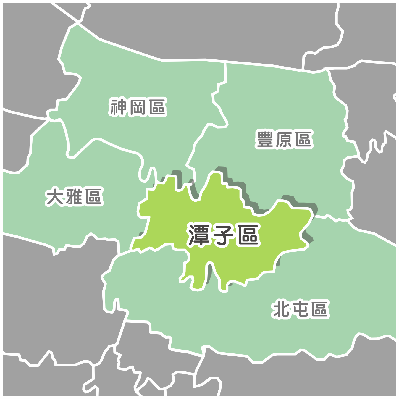 Tanzi District